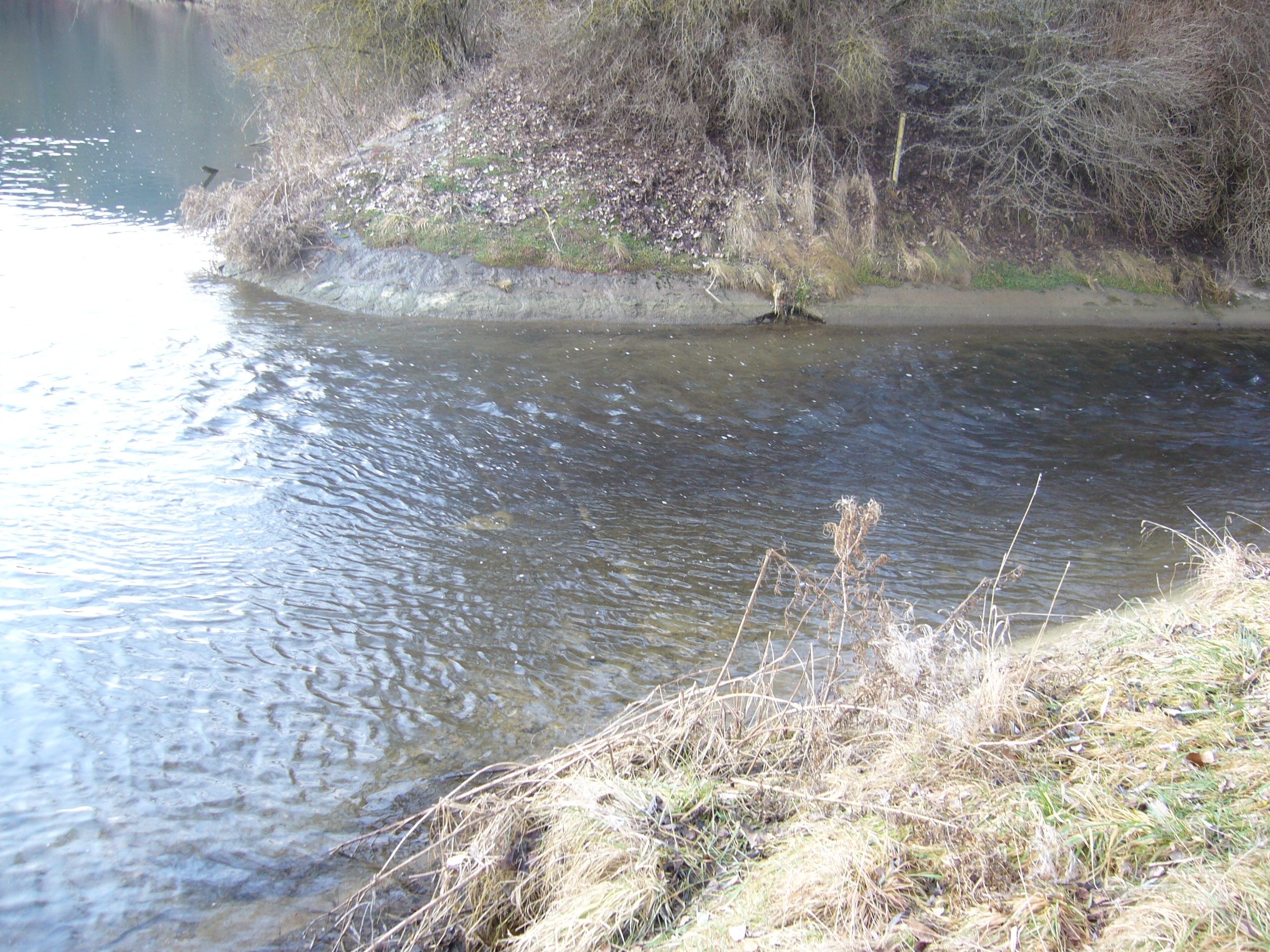 Confluence of the Elta River and the Danube River in Tuttlingen, Germany